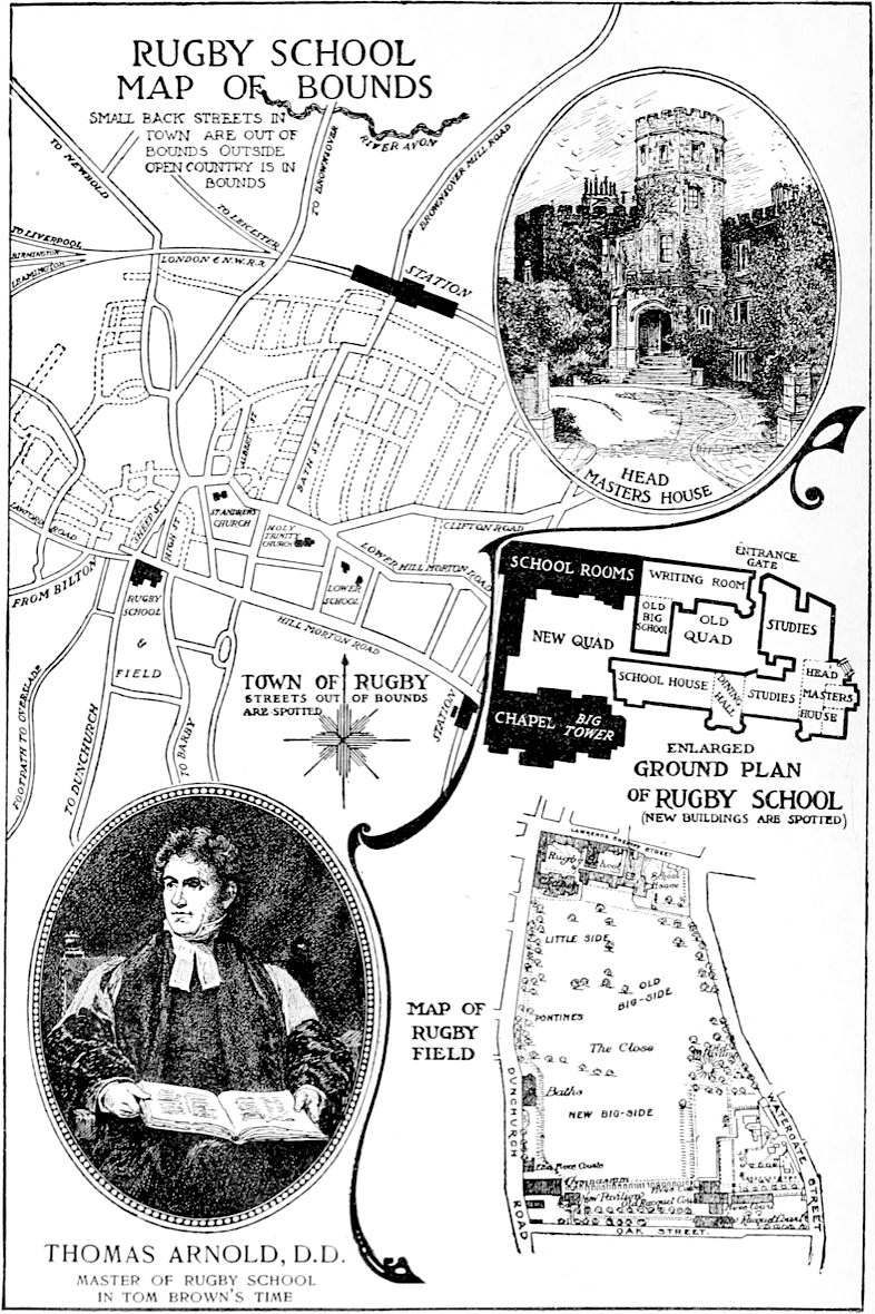 Page 2 illustration by Louis Rhead, from the 6th edition of Tom Brown's School Days (1911) by Thomas Hughes.